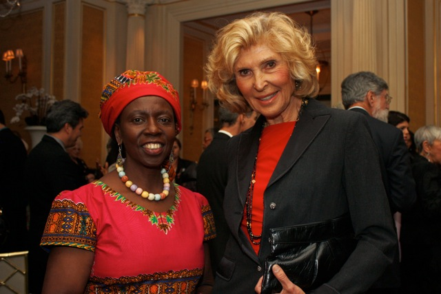 Photo Credit: Maggie Freleng Photography